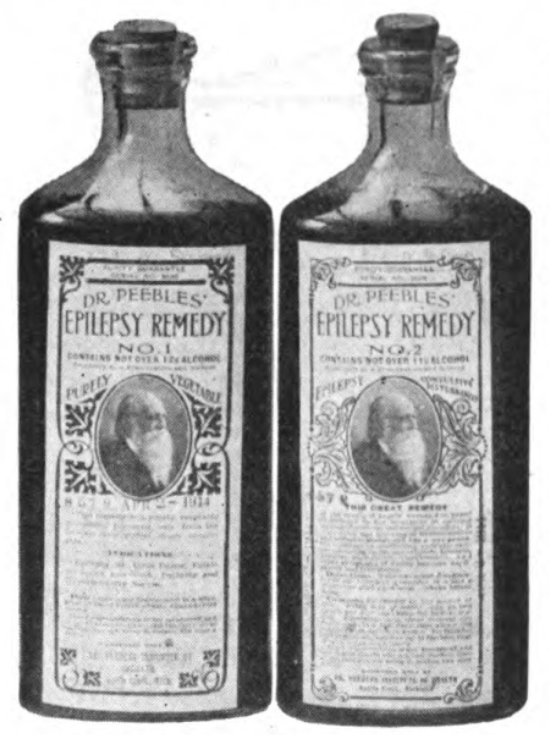 James Martin Peebles's epilepsy remedy, regarded by medical experts as quackery.